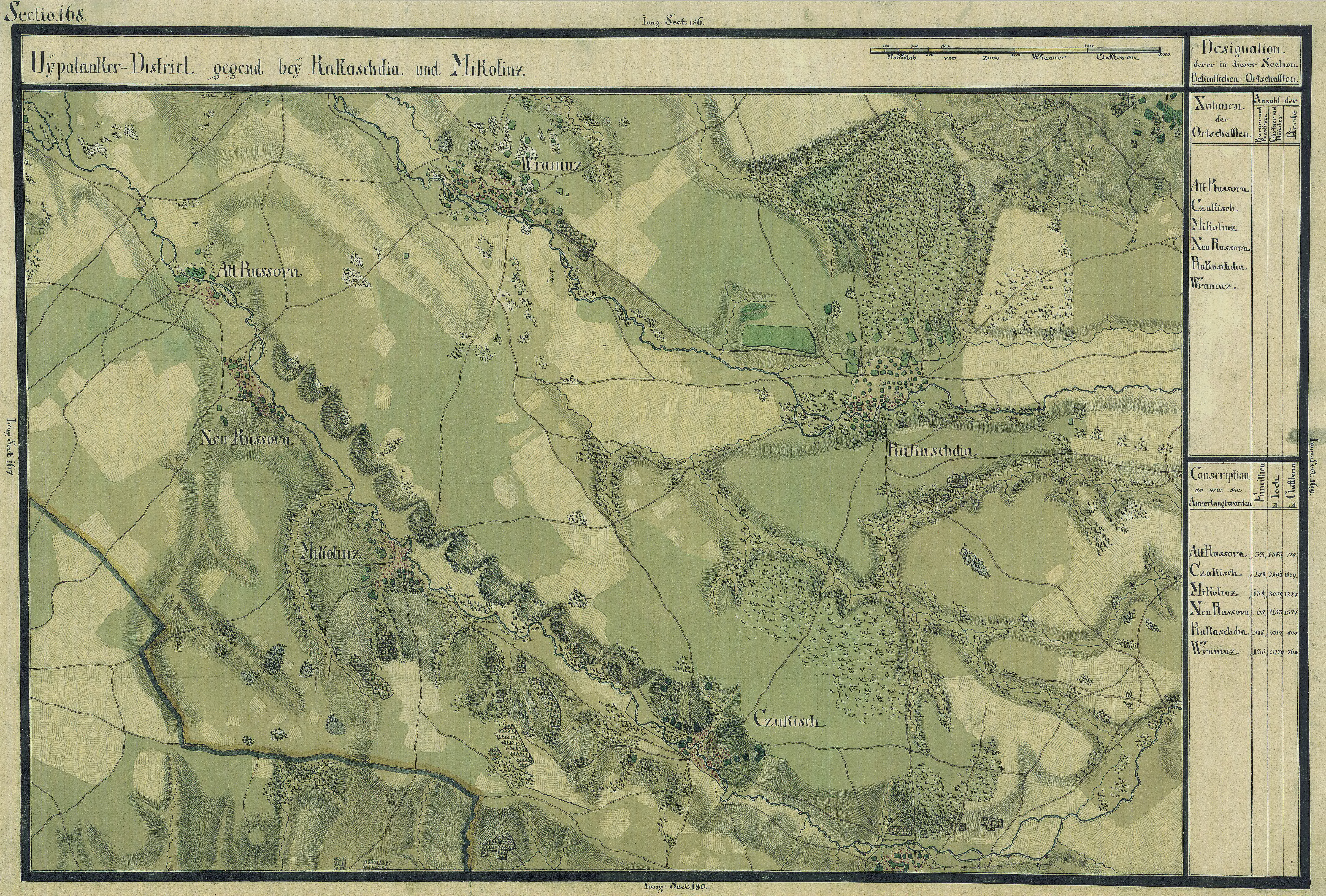 The Banat region in the cadastral maps: Josephinische Landesaufnahme, 1769-72. Josephinische Landaufnahme pg168